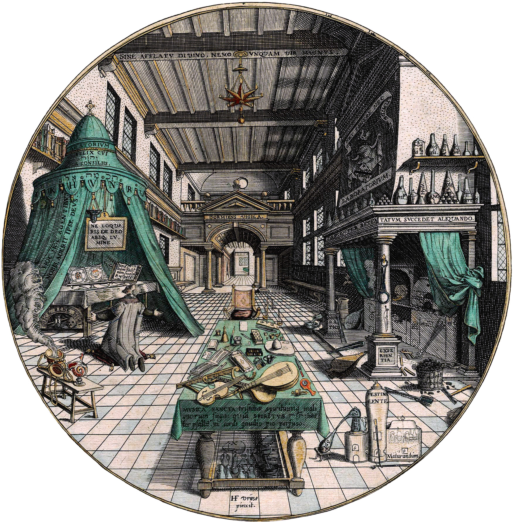 Alchemist's laboratory, engraving pictured in the book Amphitheatrum sapientiae aeternae written by Heinrich Khunrath